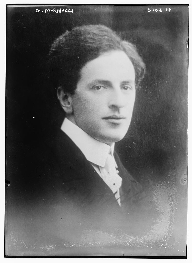 Gino Marinuzzi circa 1920